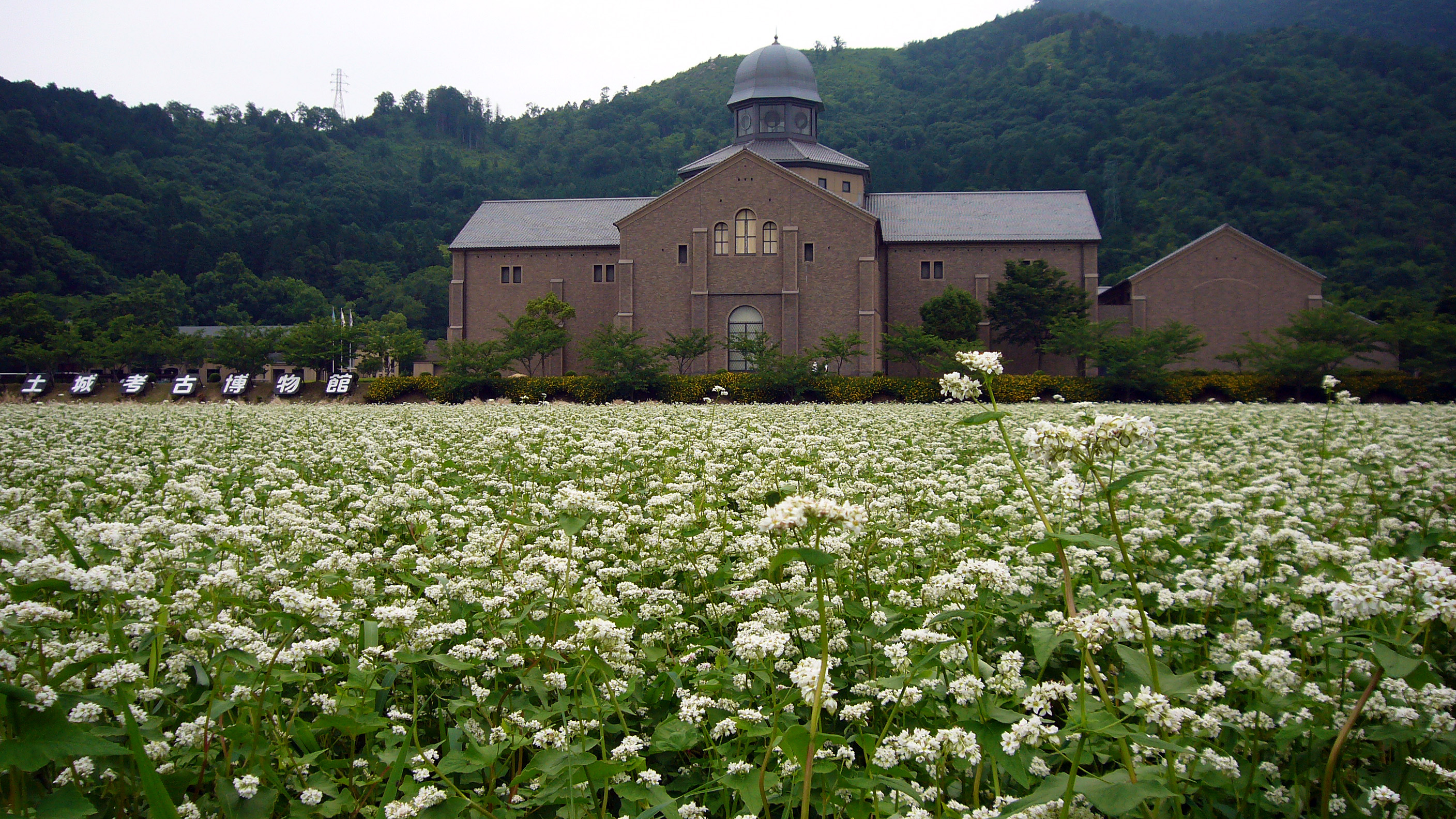 Shiga Prefectural Azuchi Castle Archeological Museum in Azuchi, Shiga, Japan